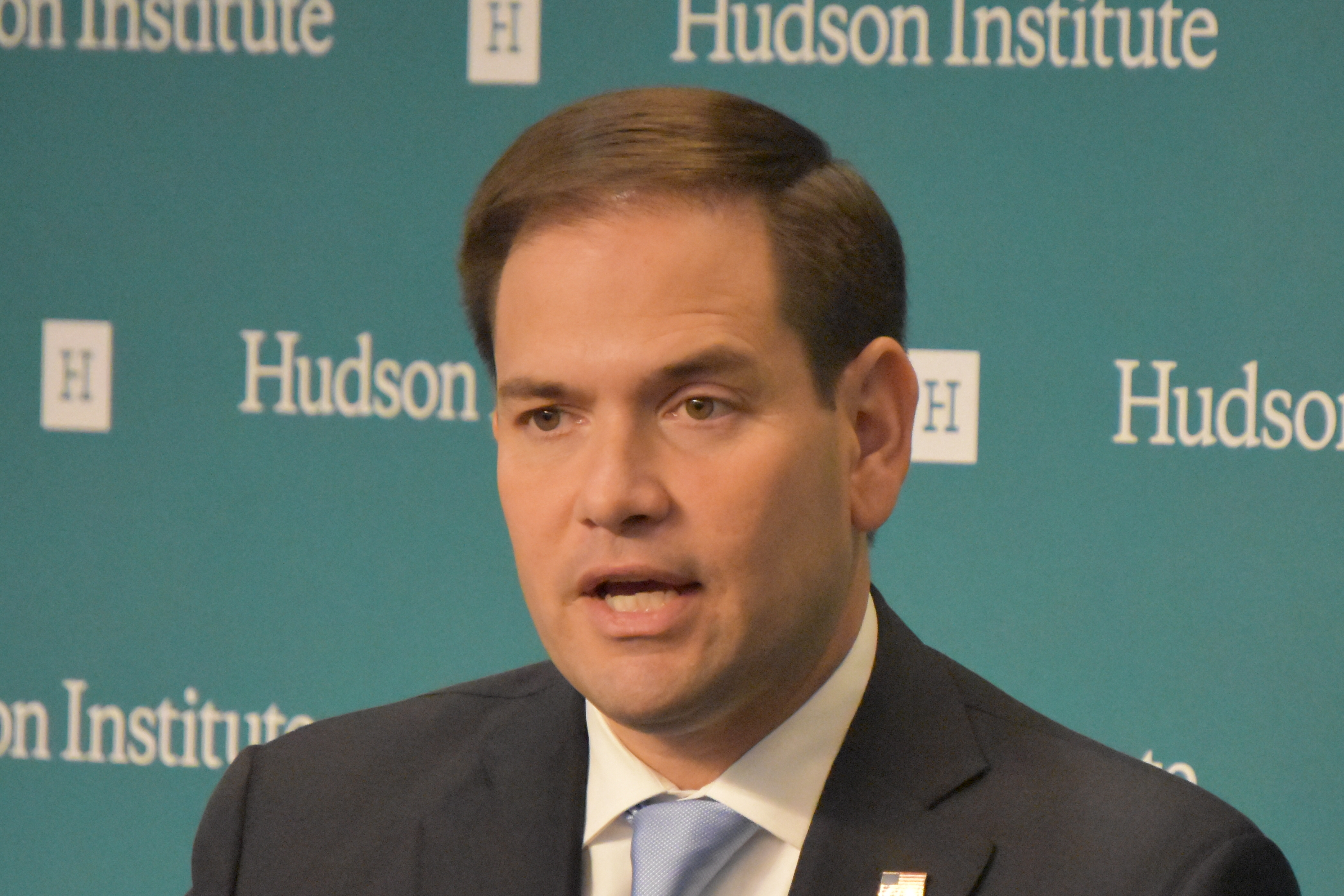 Marco Rubio speaks at the Hudson Institute on the Middle East in Crisis